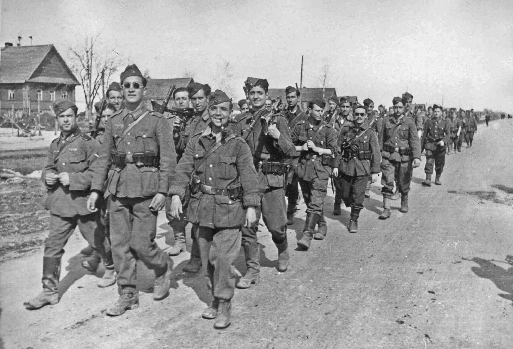 Replacements for the Blue Division. Spanish volunteers march to their assignment.